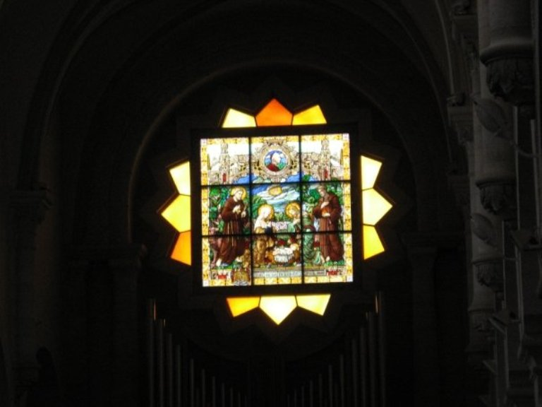 Religion in Palestine